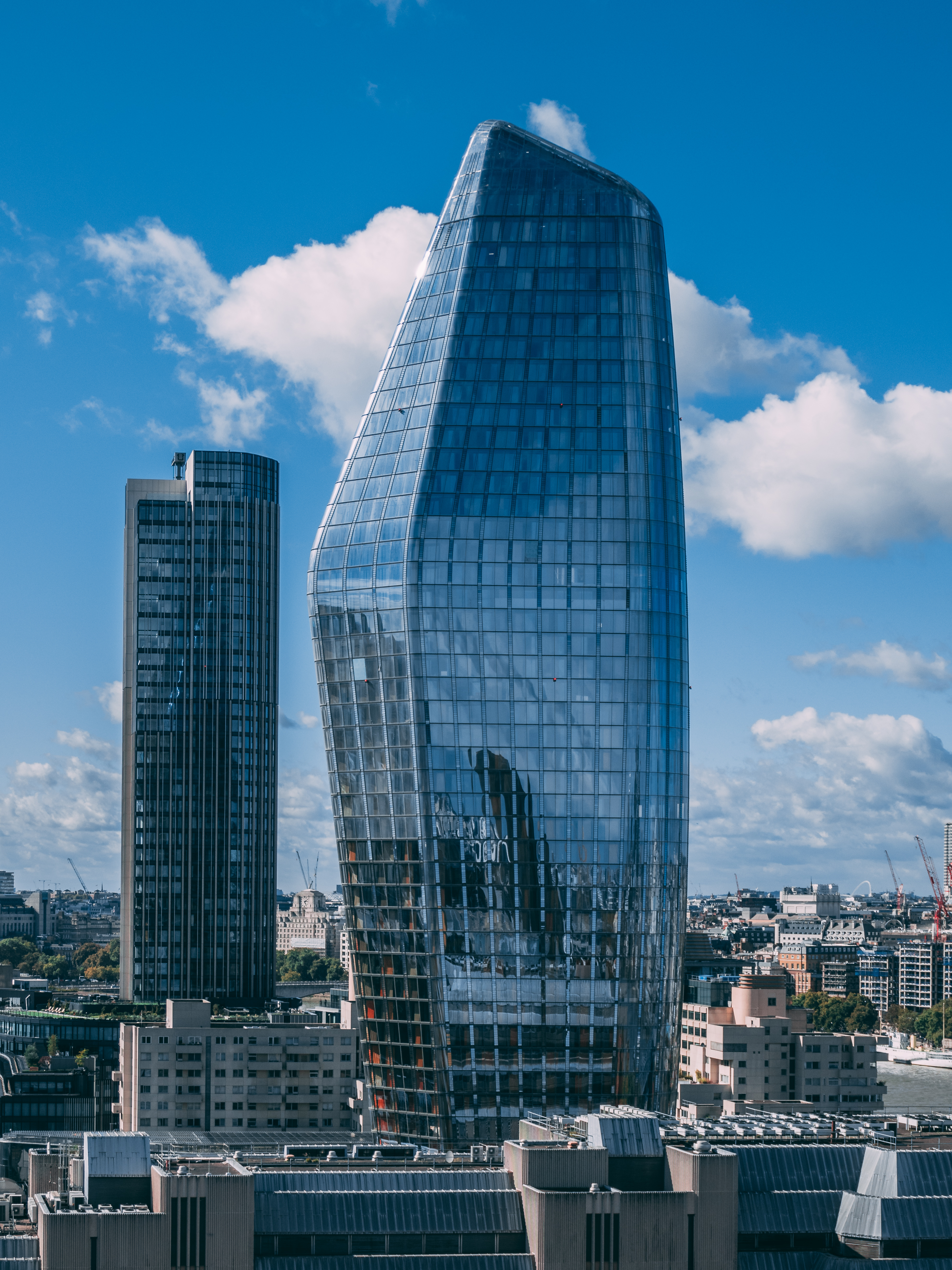 One Blackfriars (The Boomerang)